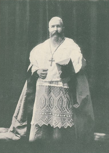 Portrait photograph of Teotónio Manuel Ribeiro Vieira de Castro (1859-1940) as Bishop of Saint Thomas of Mylapore, 1907